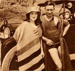 Actress Mary Anderson (1897-1986) and then-husband cinematographer Pliny Goodfriend (1891 – 1981), on page 20 of the August 19, 1922 Movie Weekly. The back of the photograph states, "Whenever they got home before dark, they took a swim before dinner." Used for an article about their divorce.